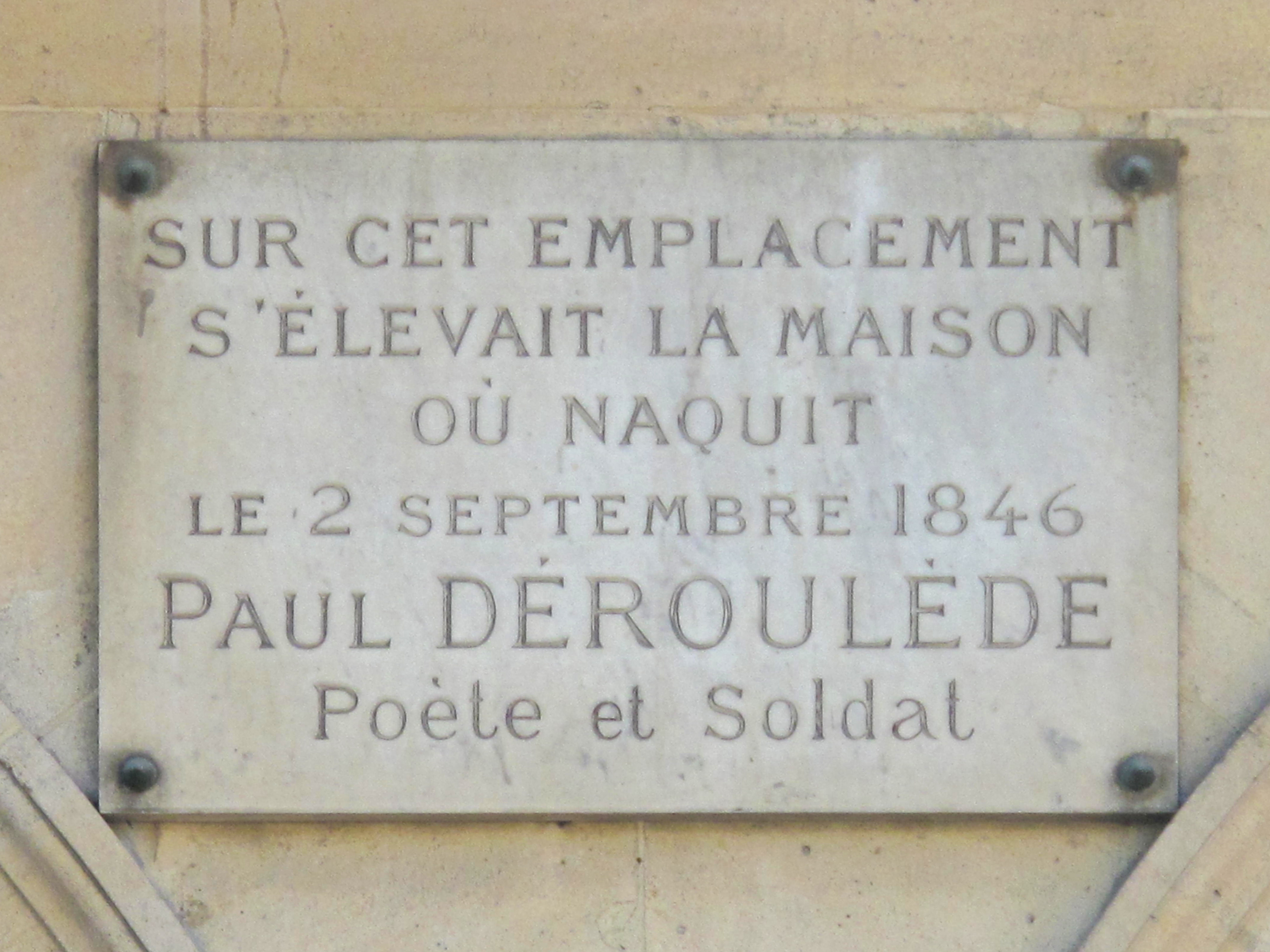 Plaque in the place of the house were was born Paul Déroulède, 3 place du Louvre, Paris 1st arr.